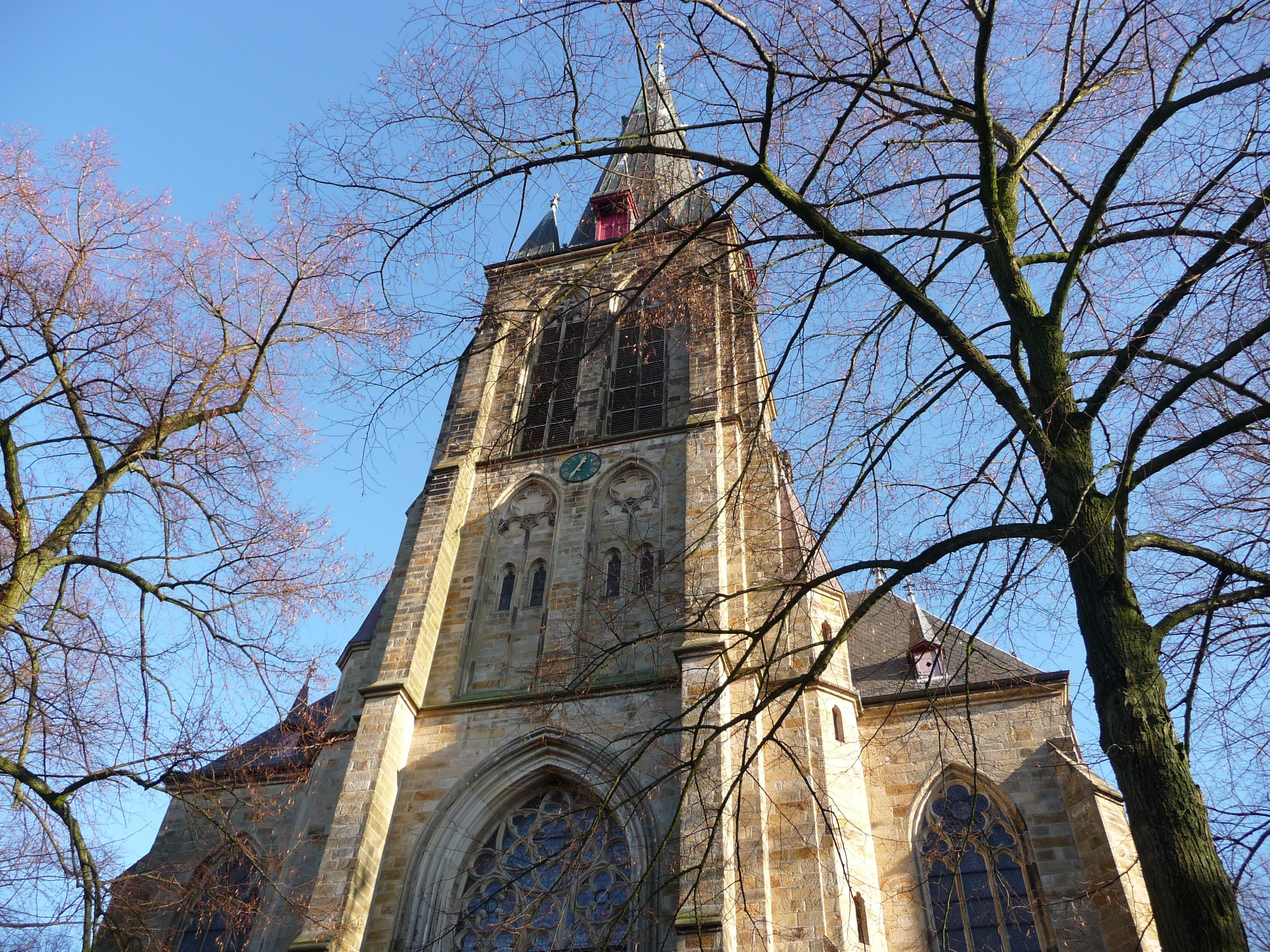 The Church of Borghorst (Steinfurt)